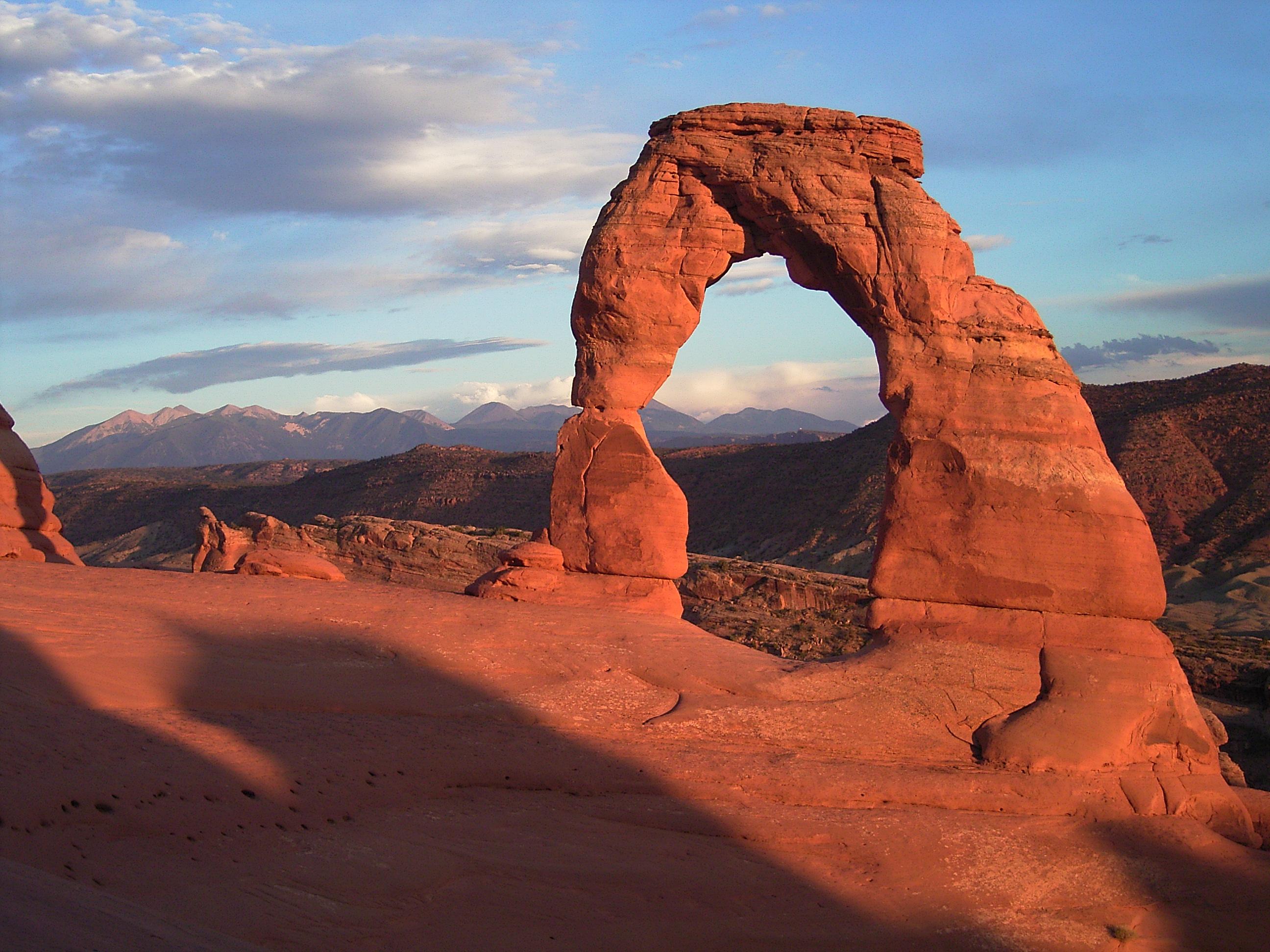 Sunset at Delicate Arch (Arches National Park, Utah).